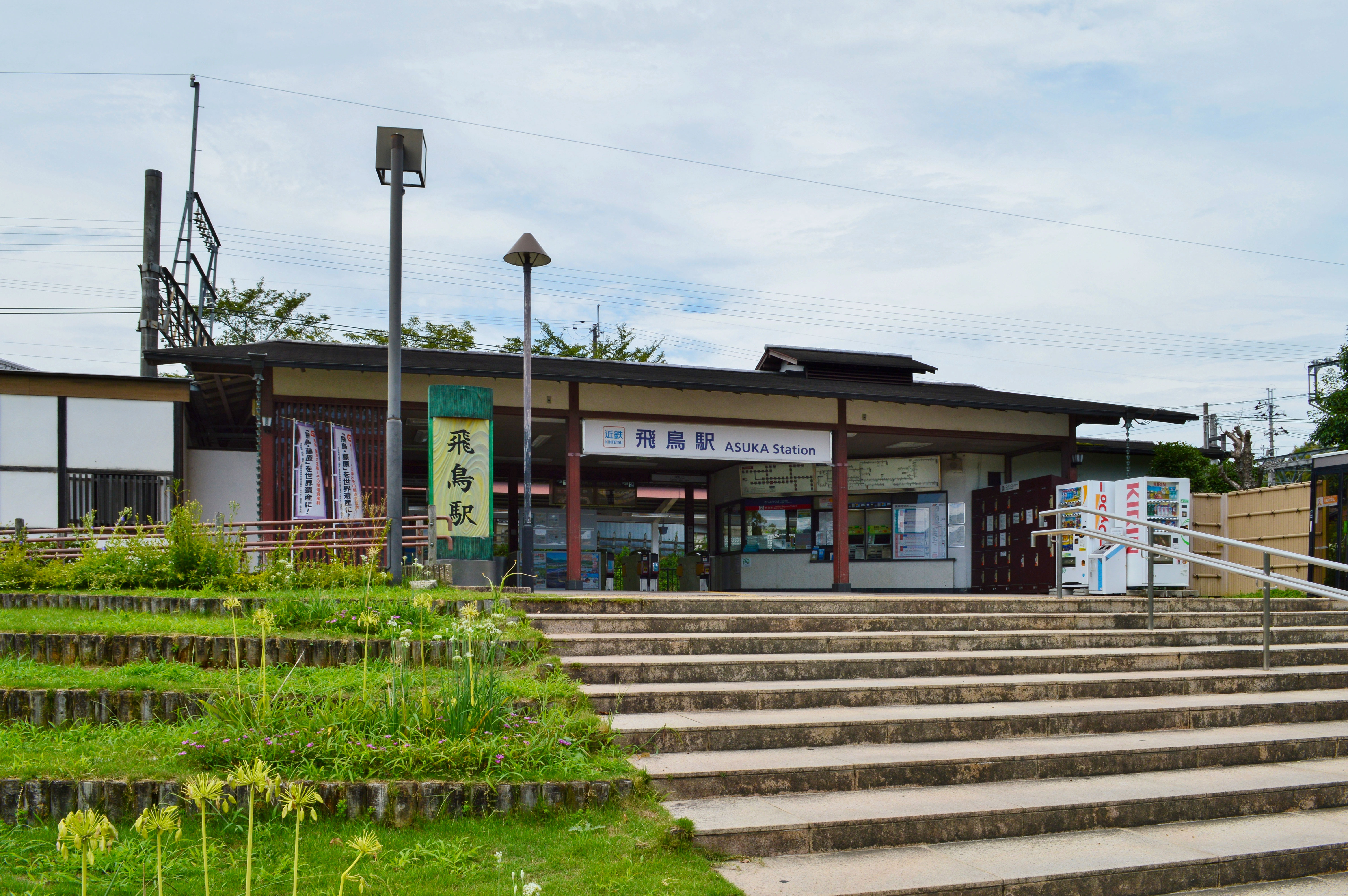 Asuka Station